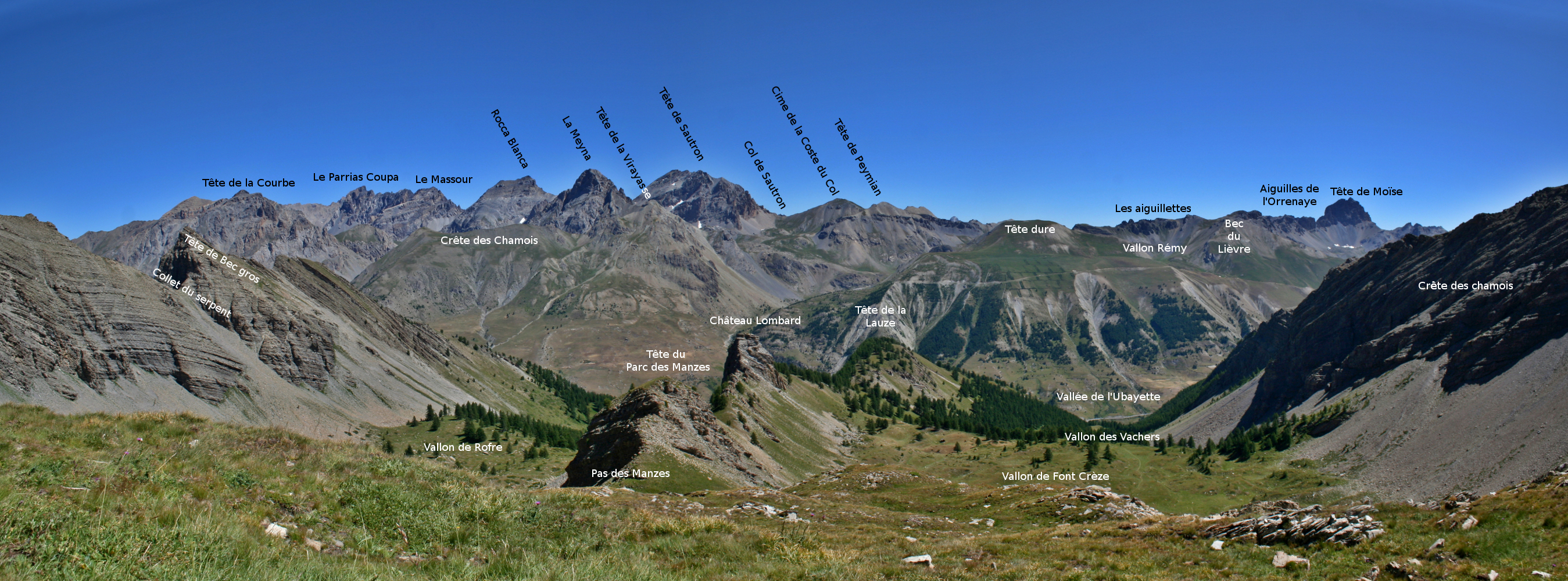 Panoramic view on the summits surrounding the eastern bank of the Ubayette and known as the Chambeyron range, as seen from the ridge between the Roffre and Fond Crèze valleys